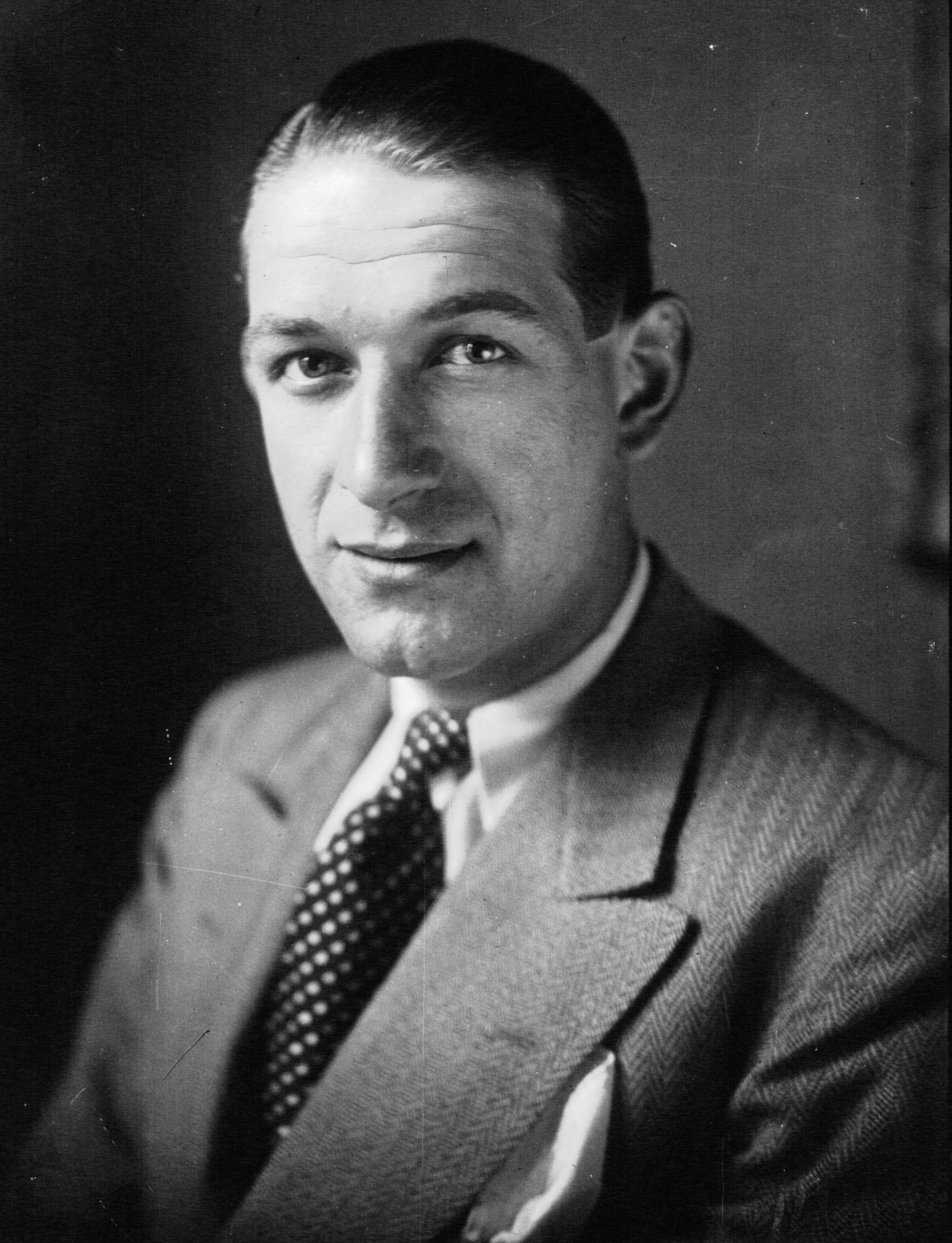 French Grand Prix motor racing driver Raymond Sommer (1906-1950).